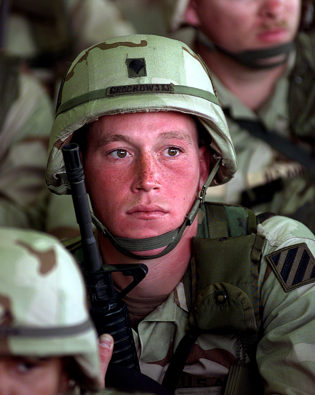 U.S. Army Spc. Grochowski, a driver with the 3rd Battalion, 69th Armor of the 3rd Infantry, Fort Stewart, Ga., waits to board a charter aircraft at Hunter Army Air Field, Ga., for deployment to the Persian Gulf region on Feb. 18, 1998. The soldiers are deploying to the Southwest Asia theater in support of Operation Southern Watch. Southern Watch is the U.S. and coalition enforcement of the no-fly-zone over Southern Iraq.